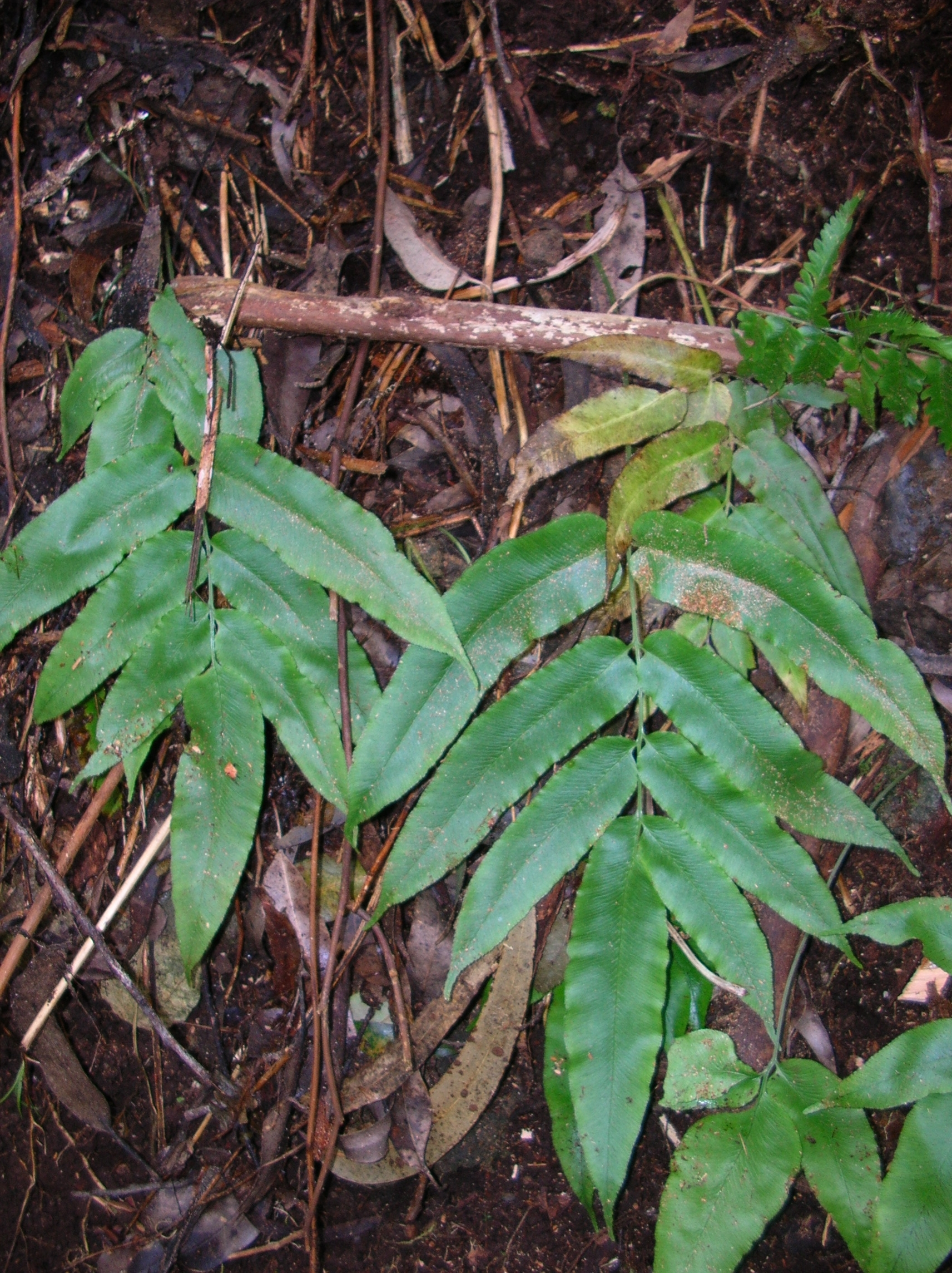 Coniogramme pilosa (habit). Location: Maui, Makawao Forest Reserve